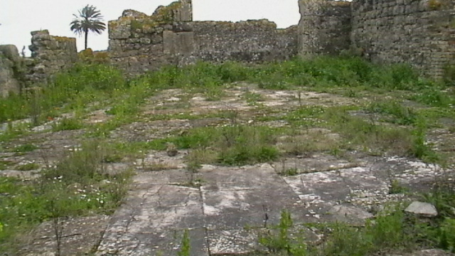 Roman ruins of Banasa : great occidental thermae Walon: Rwenes rominnes di Banasa : grands bagns å Coûtchant